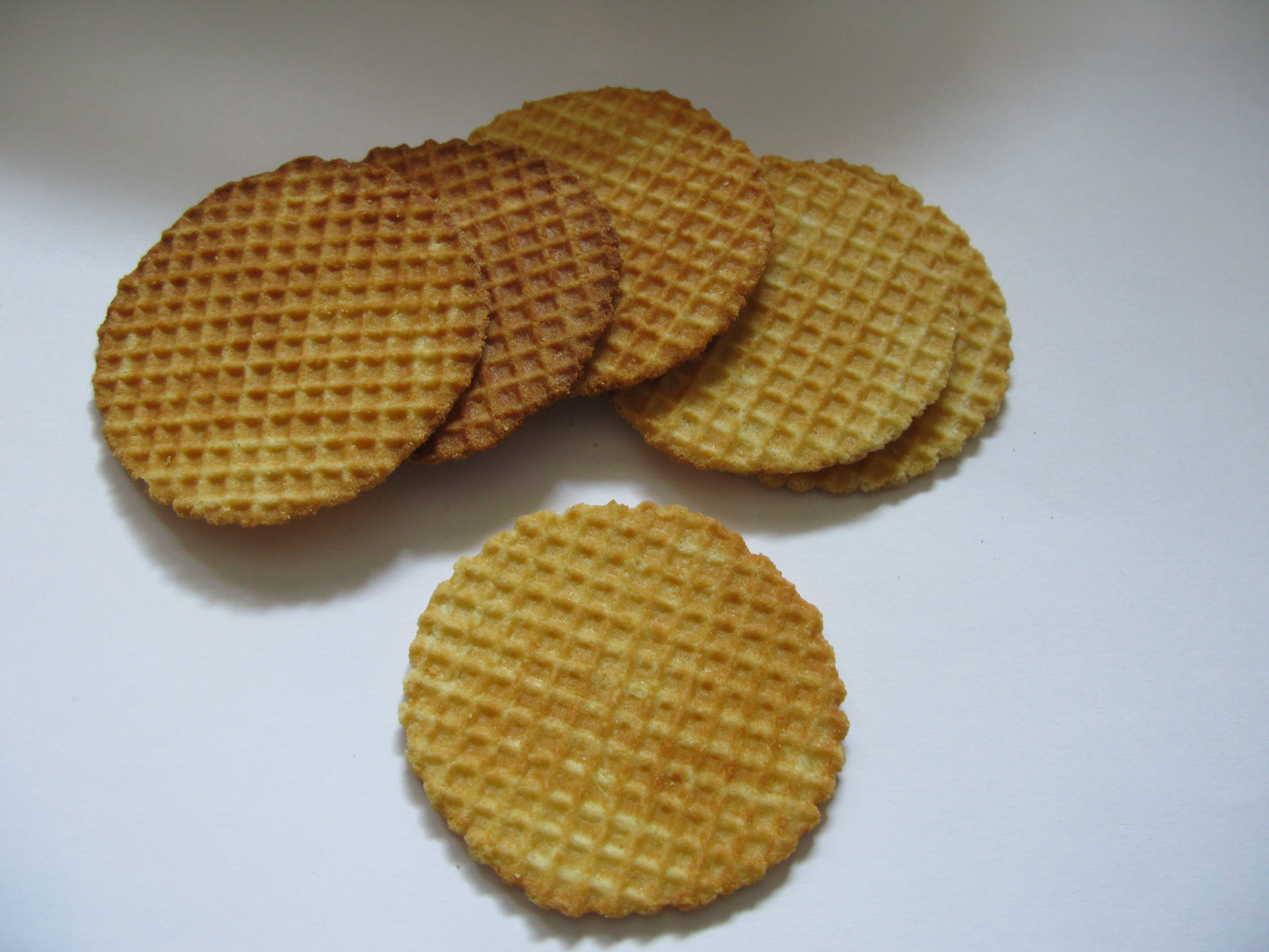 Dunkirk wafels.